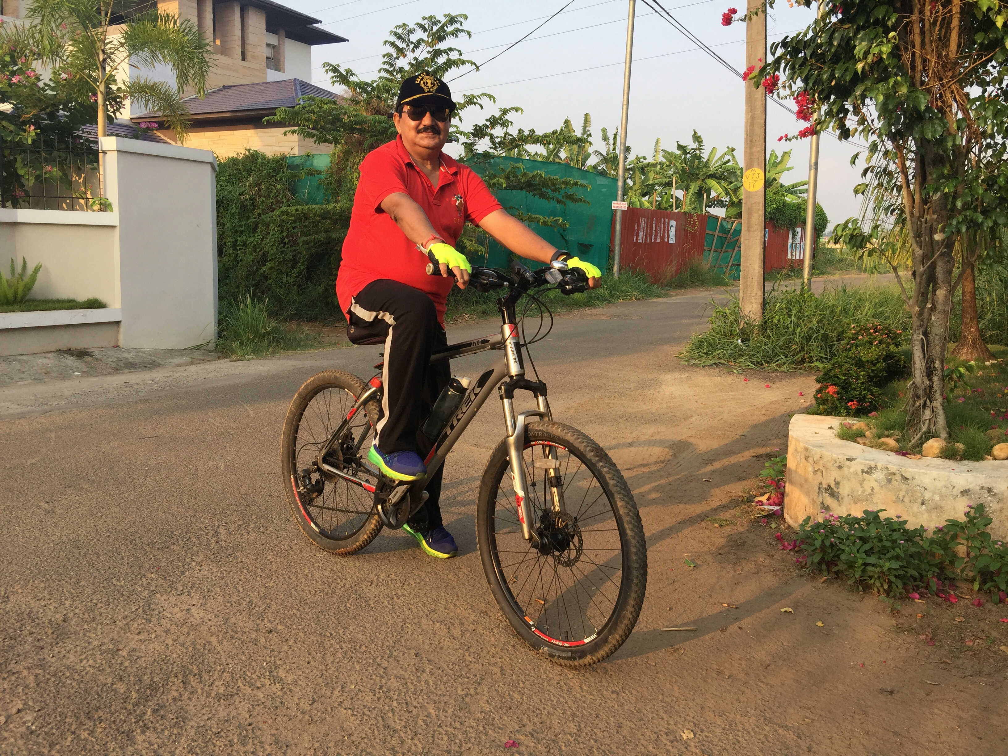 cycling time